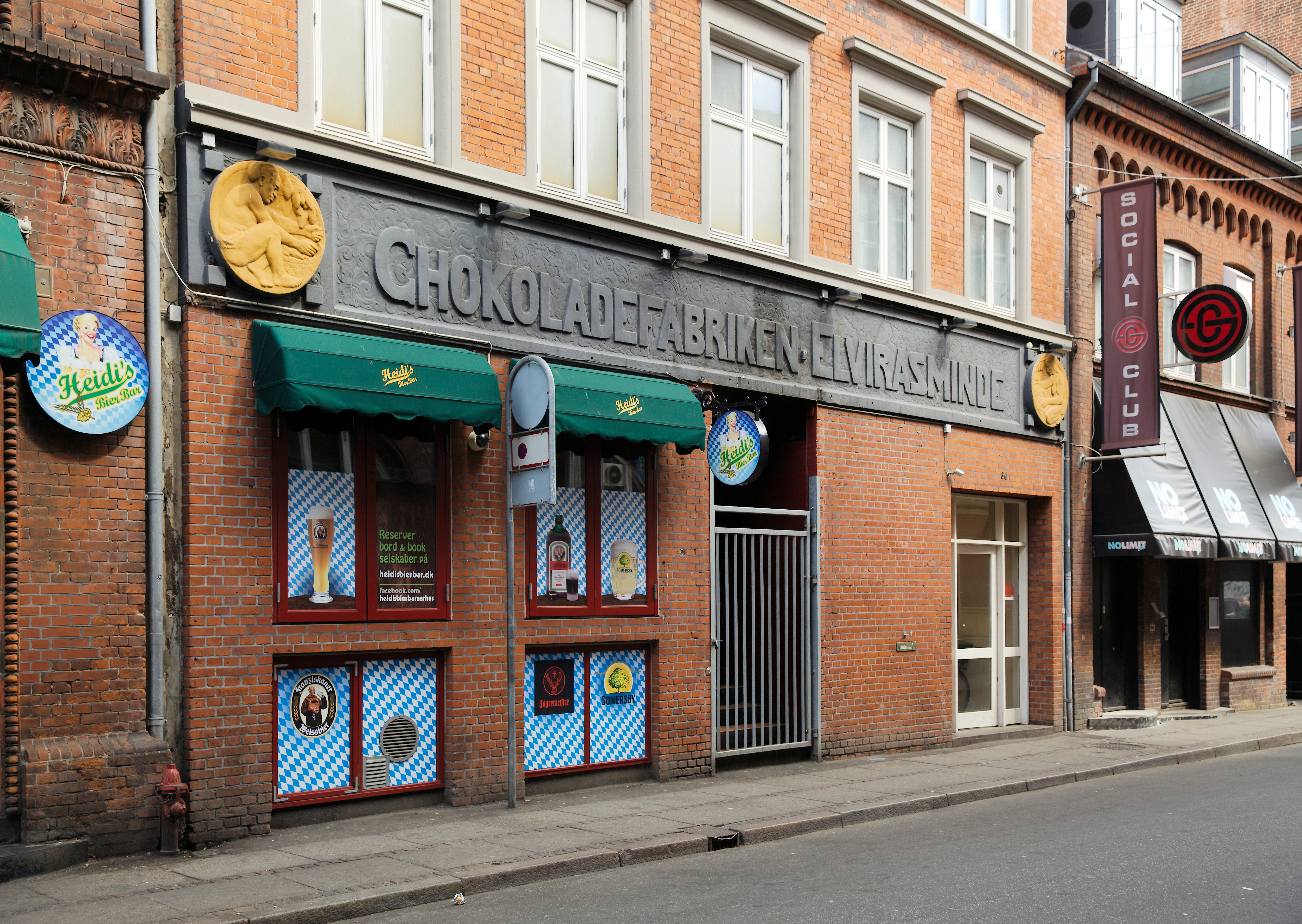 Chocolate Factory Elvirasminde from 1866/1875 until 1967, in Klostergade , Aarhus - here was the former Jazzhouse Tagskægget